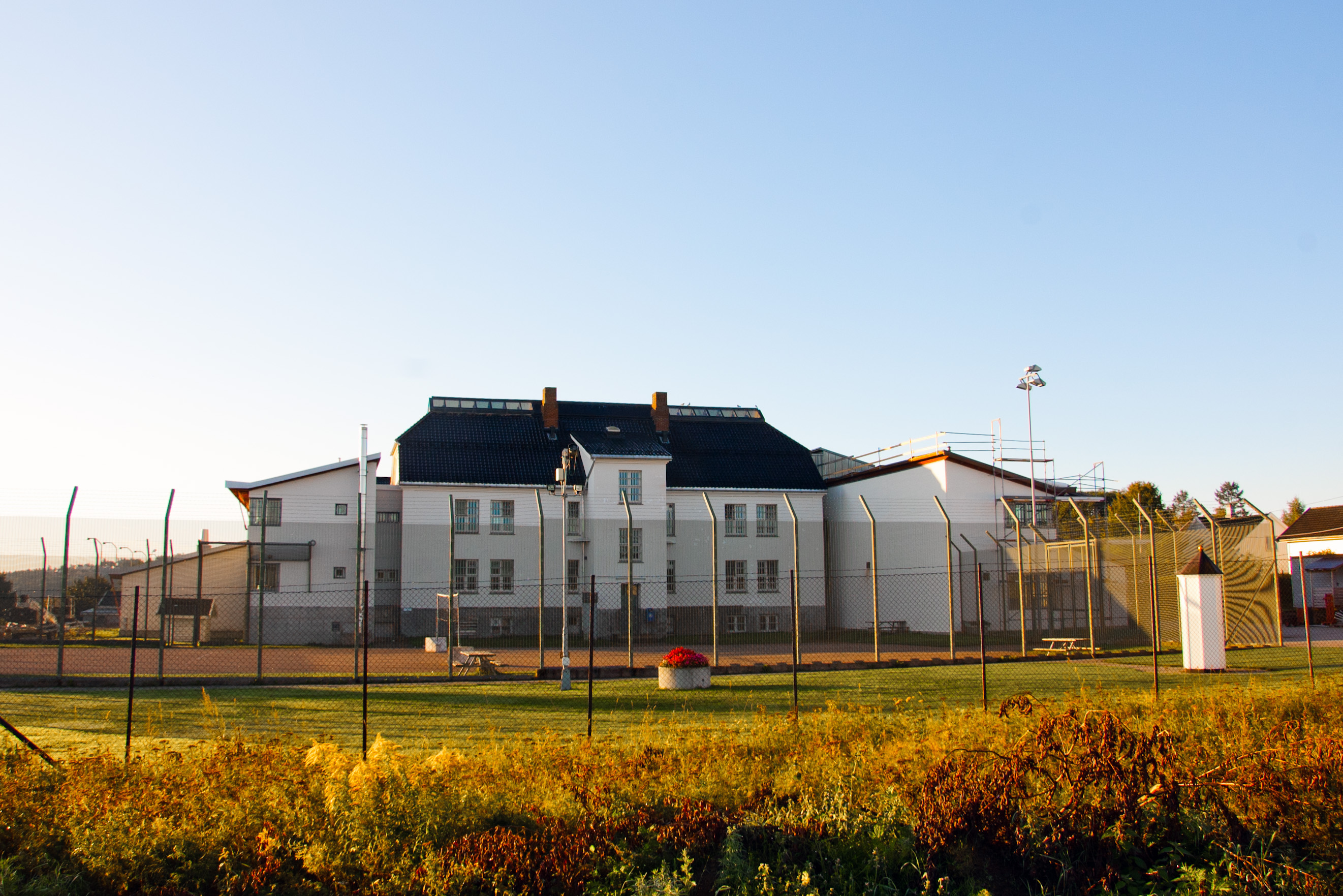 Sem Prison in Tønsberg, Vestfold, norway